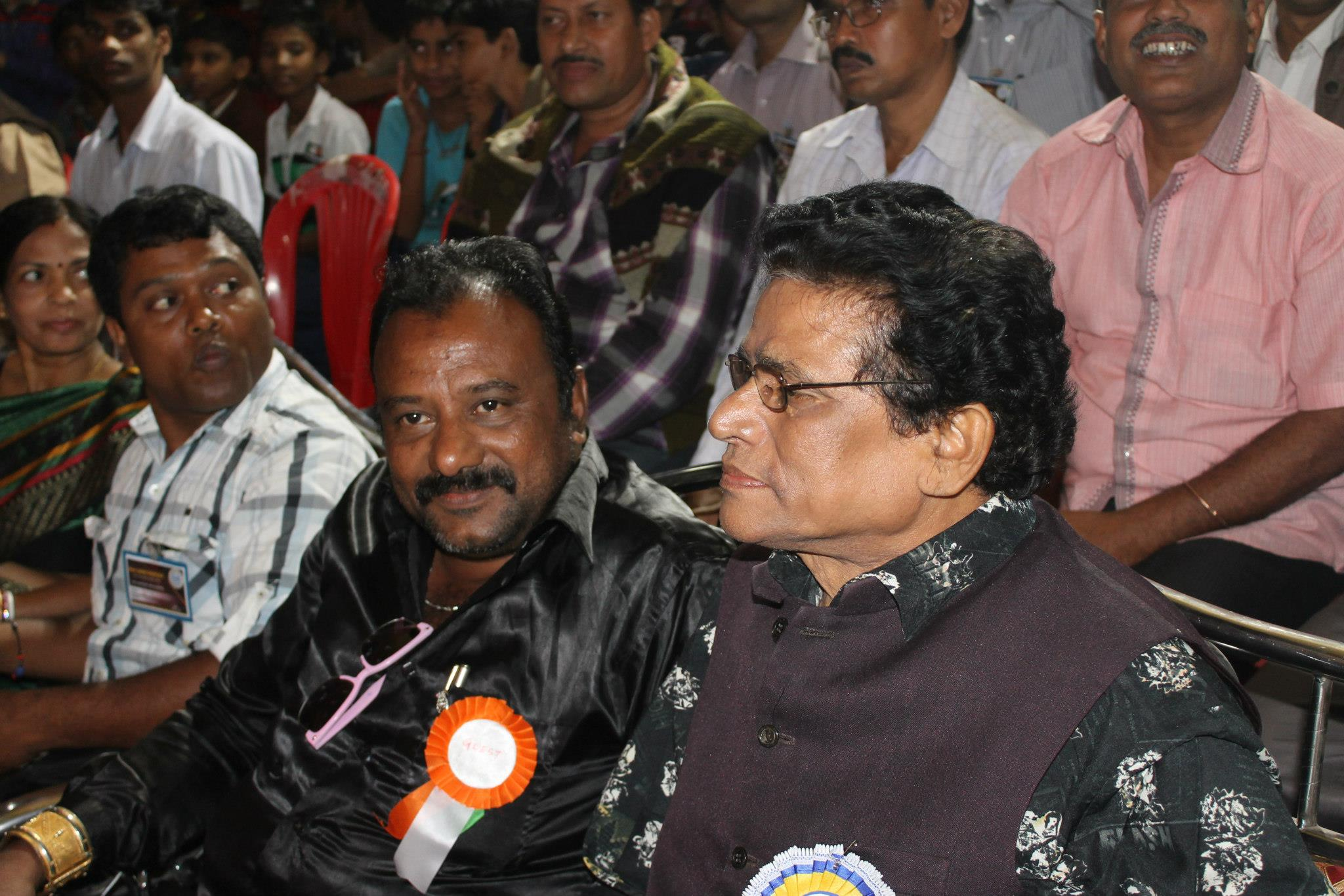 silver jubilee celebration of jnv bagudi